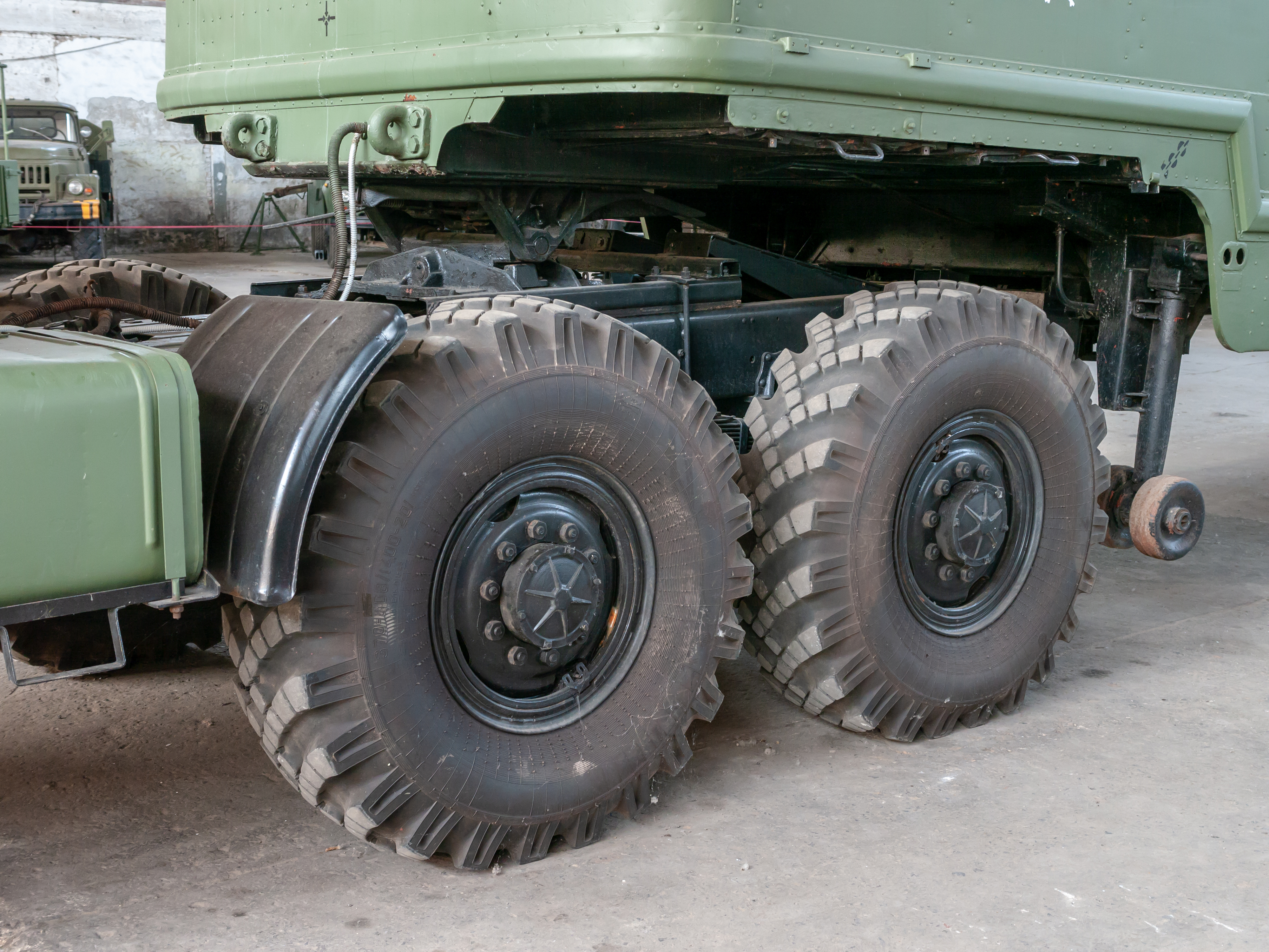 driving wheels of an Ural 377 S semi-trailer tractor